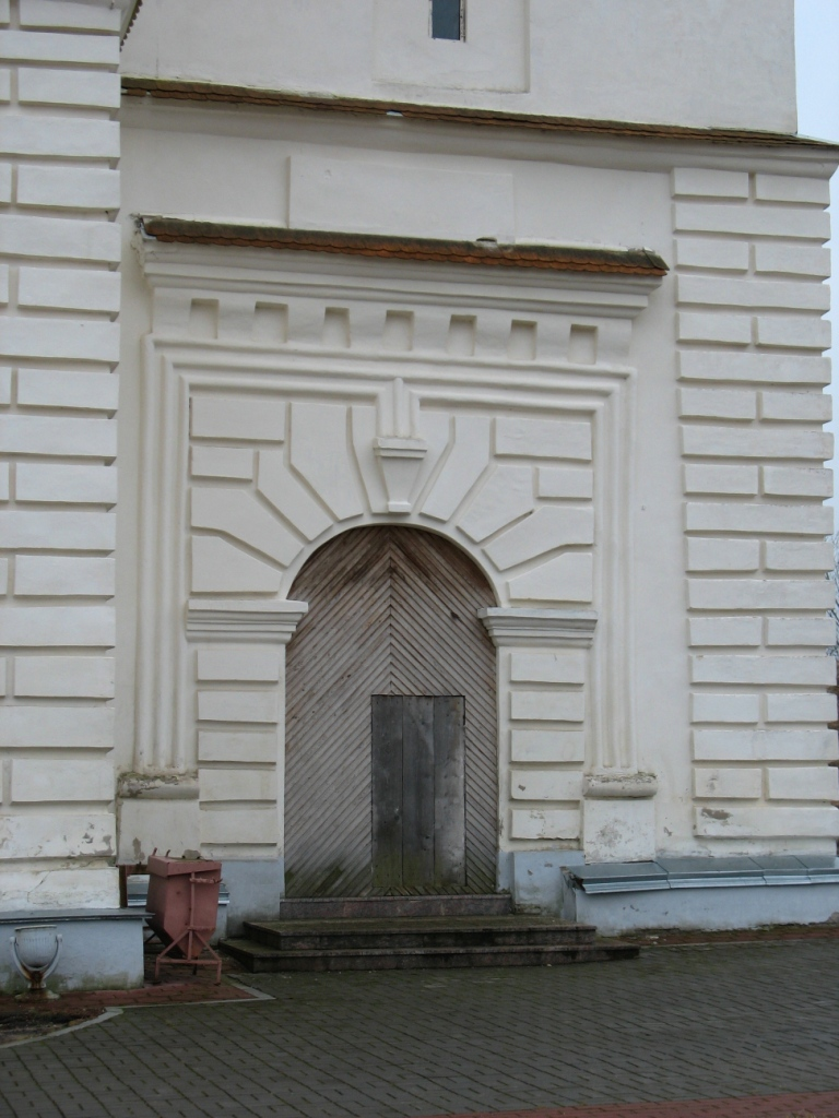 Church Zaslauje, Belarus